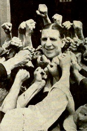 Still from the American film serial The Midnight Man (1919) with James J. Corbett, on page 1988 of the June 28, 1919 Moving Picture World.